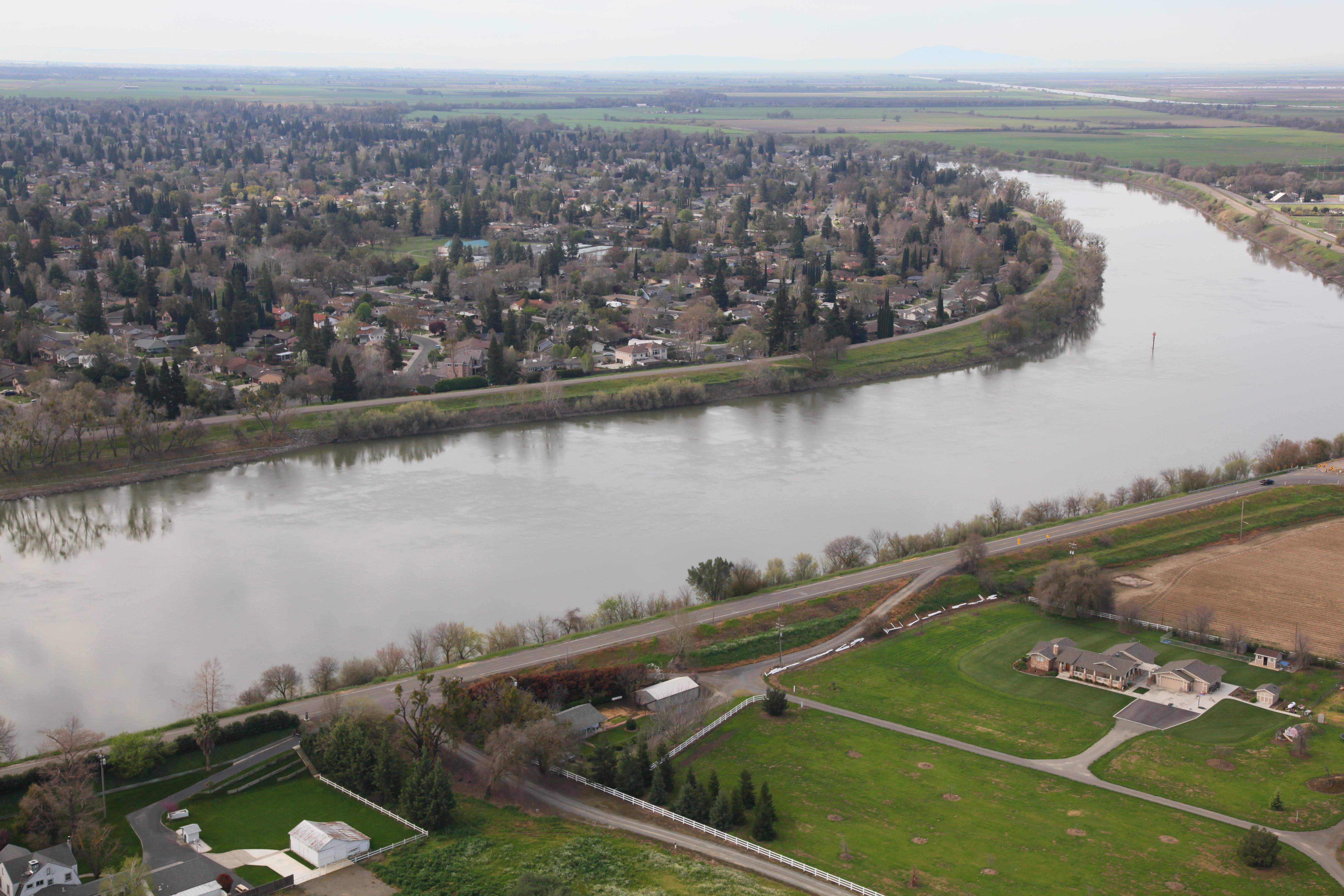 An aerial view of the Sacramento River in Sacramento, Calif., taken March 17, 2010. (U.S. Army photo by Michael J. Nevins/Released) The view is looking almost due south, taken from an altitude of approximately 300 feet, at an approximate location of 38° 31' 06" N - 121° 32' 56" W, with the foreground on the west side of the river. The neighborhood seen in the background of the image is known as the Pocket. Significant work was done on levees on this section of the river over the next decade since this picture was taken.